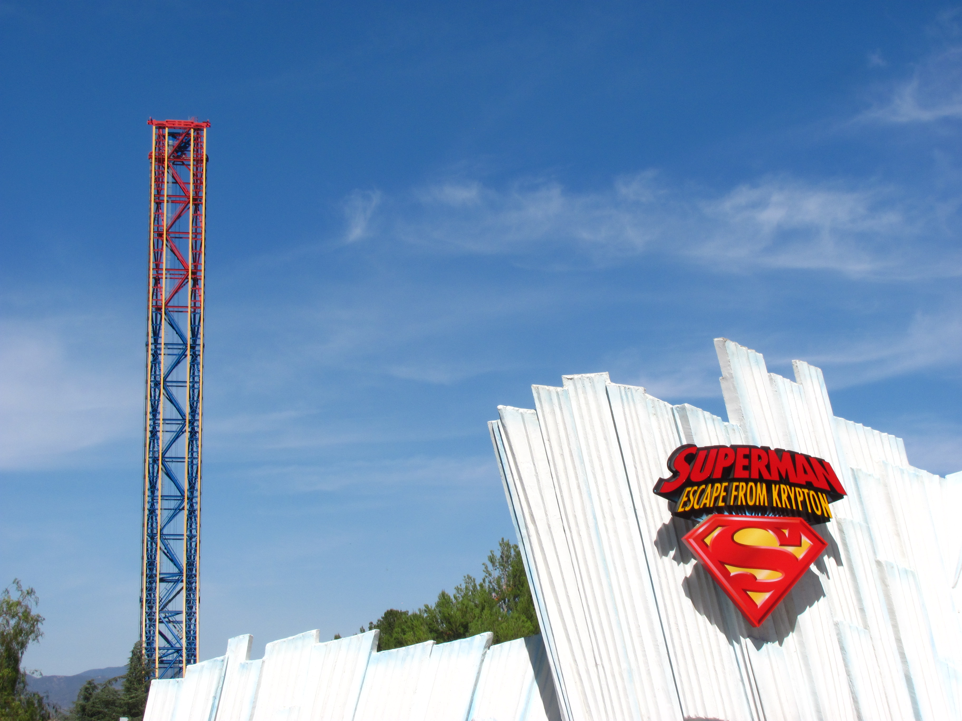 Six Flags Magic Mountain